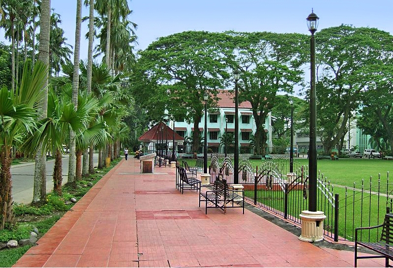 The centennial walkway on the main campus of Central Philippine University.